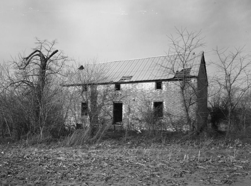 Brick Store, Route 488, East of Road 489, Smyrna vicinity (New Castle County, Delaware) River front cropped This file comes from the Historic American Buildings Survey (HABS), Historic American Engineering Record (HAER) or Historic American Landscapes Survey (HALS). These are programs of the National Park Service established for the purpose of documenting historic places. Records consist of measured drawings, archival photographs, and written reports. When reusing please credit: Library of Congress, Prints & Photographs Division, DEL,2-SMYR.V,2-1 This tag does not indicate the copyright status of the attached work. A normal copyright tag is still required. See Commons:Licensing for more information. English | +/− This work is in the public domain in the United States because it is a work prepared by an officer or employee of the United States Government as part of that person’s official duties under the terms of Title 17, Chapter 1, Section 105 of the US Code. See Copyright. Note: This only applies to original works of the Federal Government and not to the work of any individual U.S. state, territory, commonwealth, county, municipality, or any other subdivision. This template also does not apply to postage stamp designs published by the United States Postal Service since 1978. (See § 313.6(C)(1) of Compendium of U.S. Copyright Office Practices). It also does not apply to certain US coins; see The US Mint Terms of Use. This file has been identified as being free of known restrictions under copyright law, including all related and neighboring rights. Object location39° 19′ 21″ N, 75° 34′ 26″ W